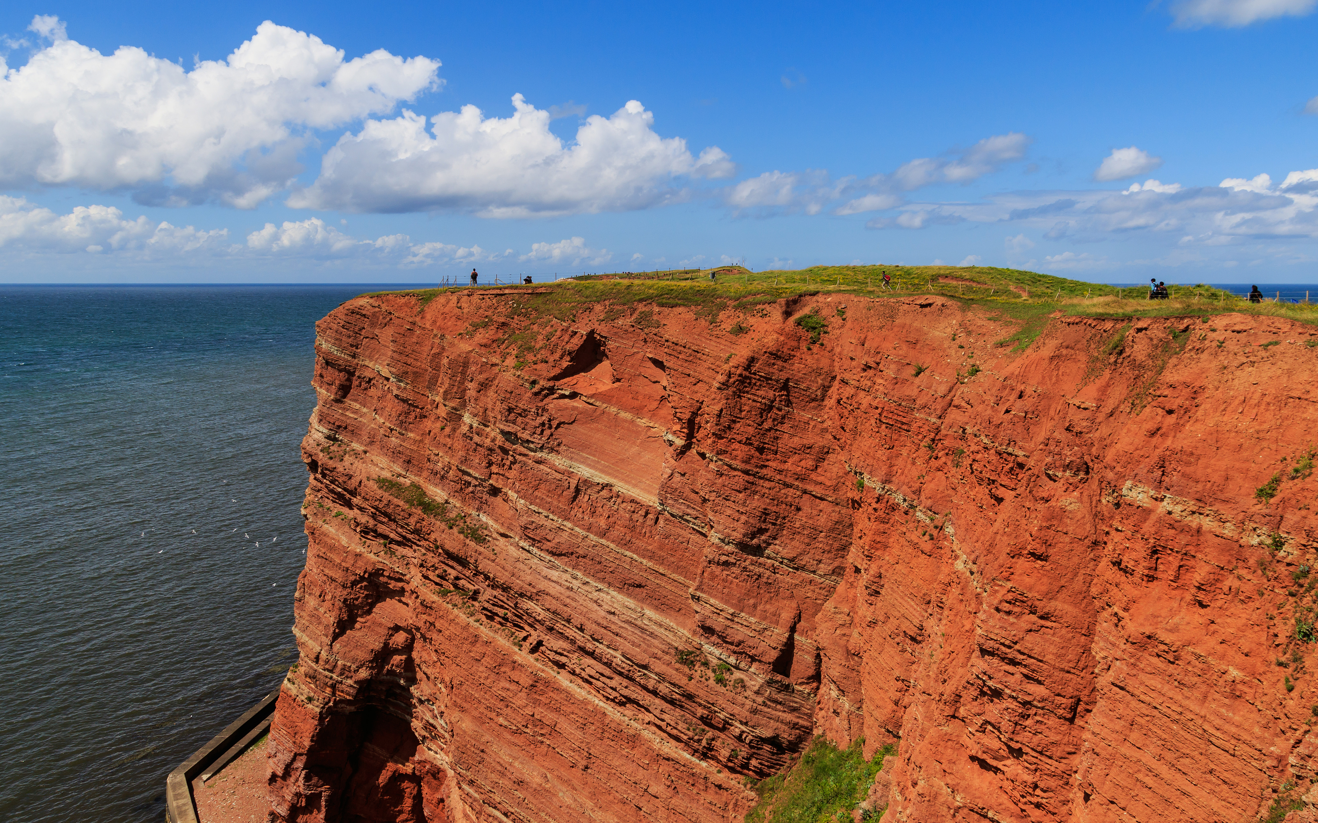 View of the cliffs from upper island of Heligoland, Germany